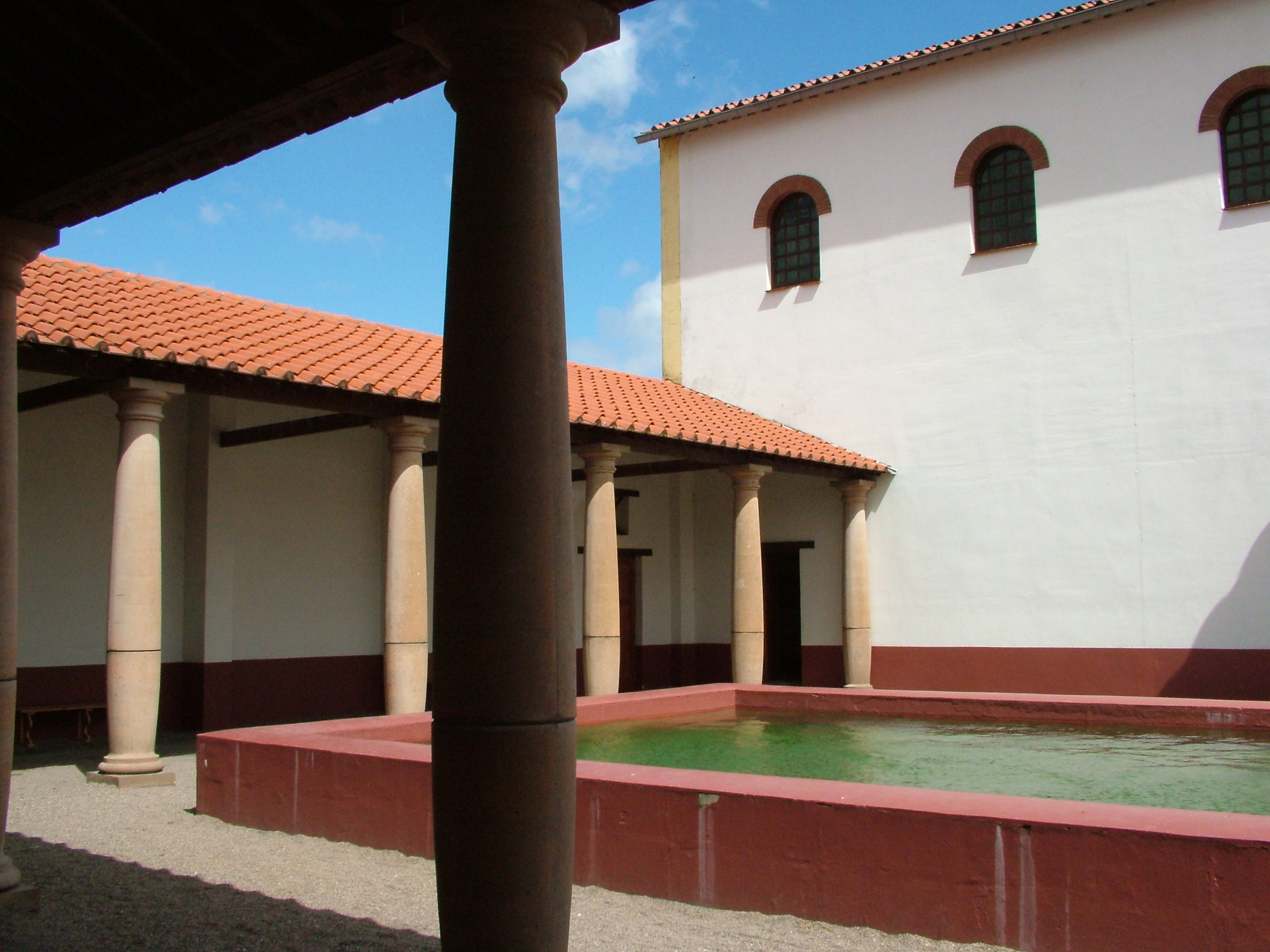 Archeologisch Themapark Archeon (Alphen aan den Rijn), binnenhof Romeins badhuis / inner court of the Roman thermae